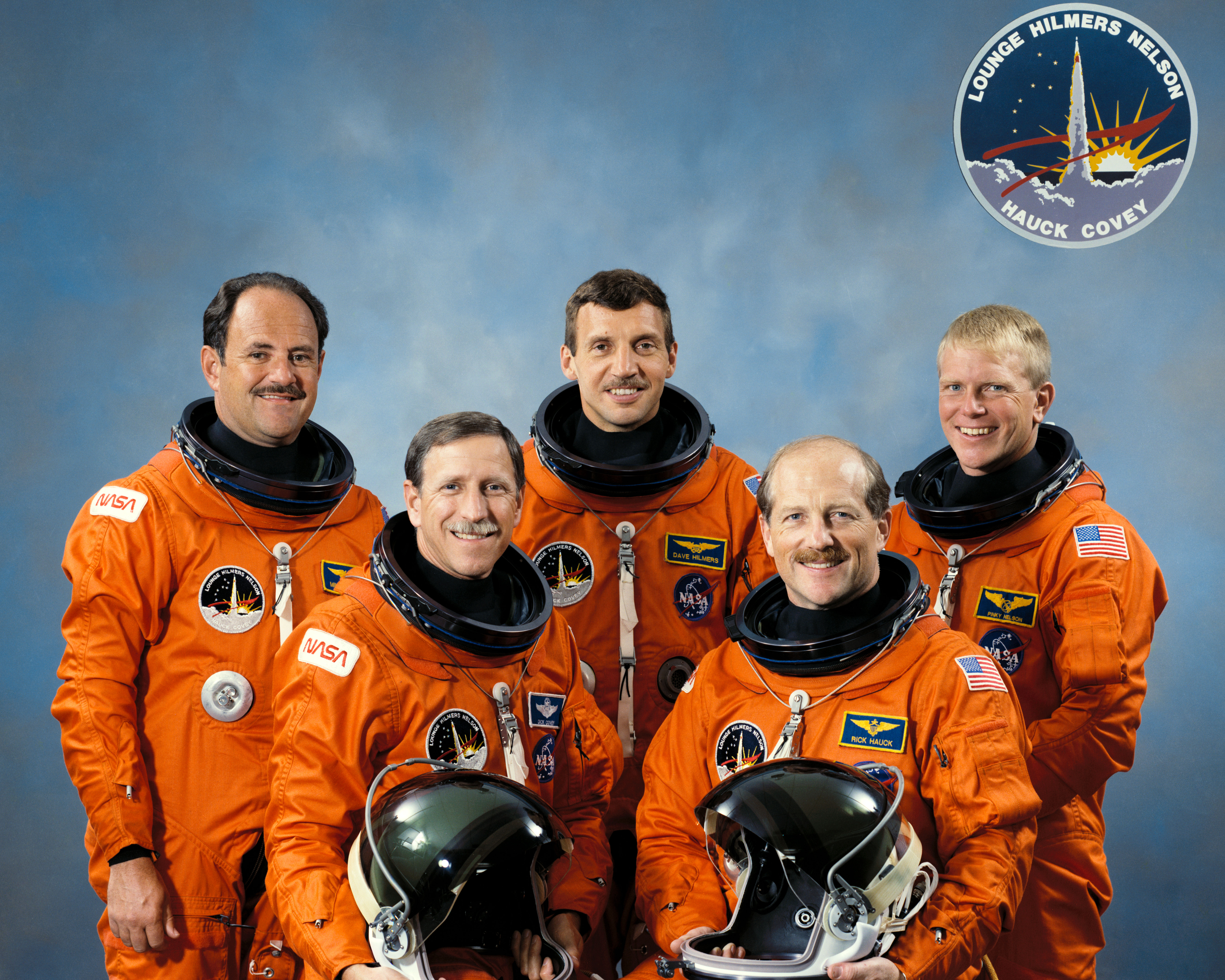 The STS-26 Return to Flight crew are, in the back row from left to right: Mission Specialist Mike Lounge, Mission Specialist David C. Hilmers, Mission Specialist George D. Nelson. Front row: Pilot Richard O. Covey and Commander Frederick H. Hauck. The crew is pictured wearing their orange Launch and Entry Suits (LES). The mission emblem is displayed in the background.